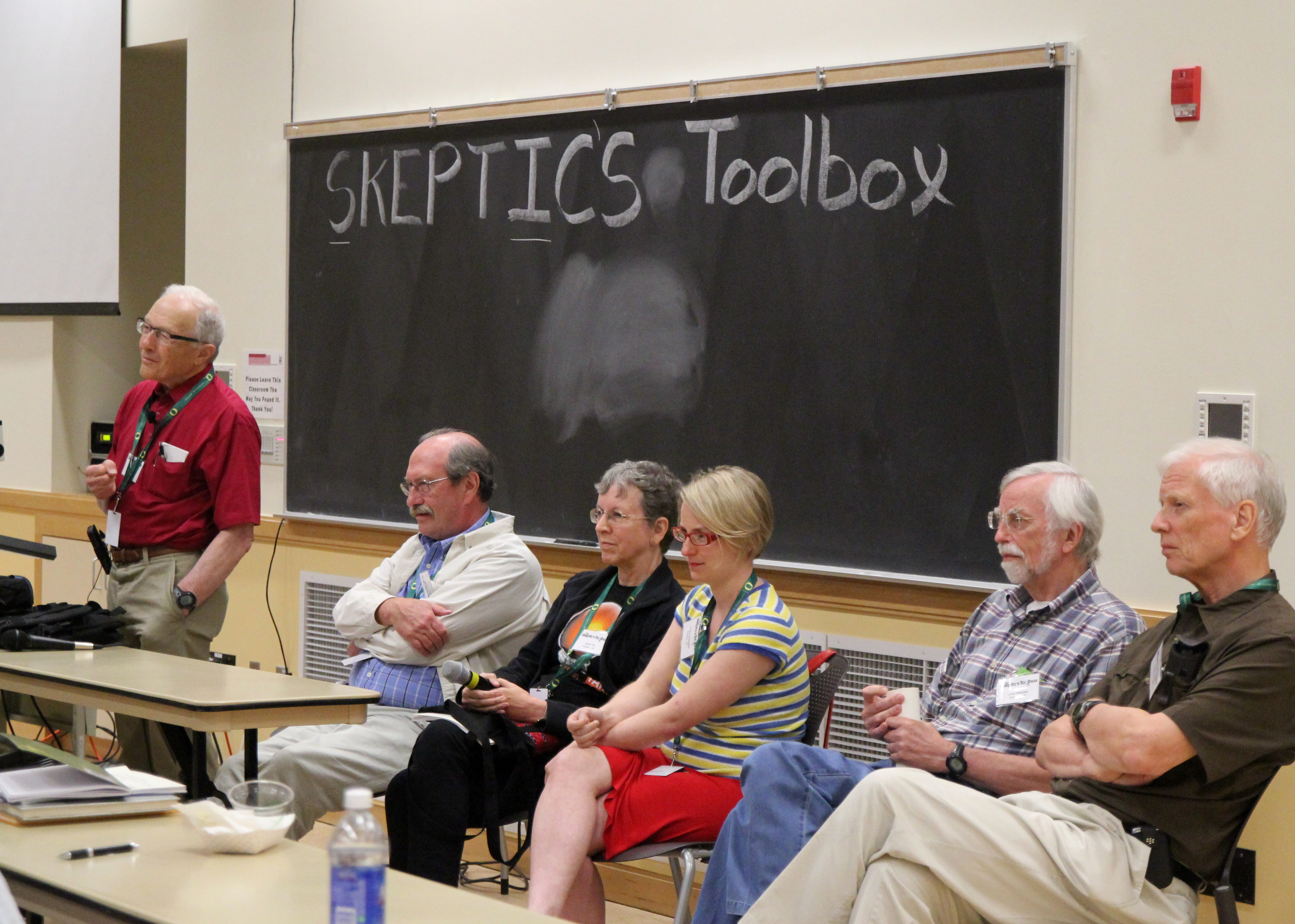 August 9-12, 2012 Evaluating Evidence: Garbage In, Garbage Out Faculty - Ray Hyman, Lindsay Beyerstein, Harriet Hall, James Alcock, Loren Pankratz, Richard Wackrow